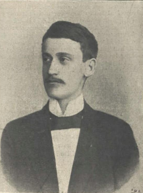 István Szamota